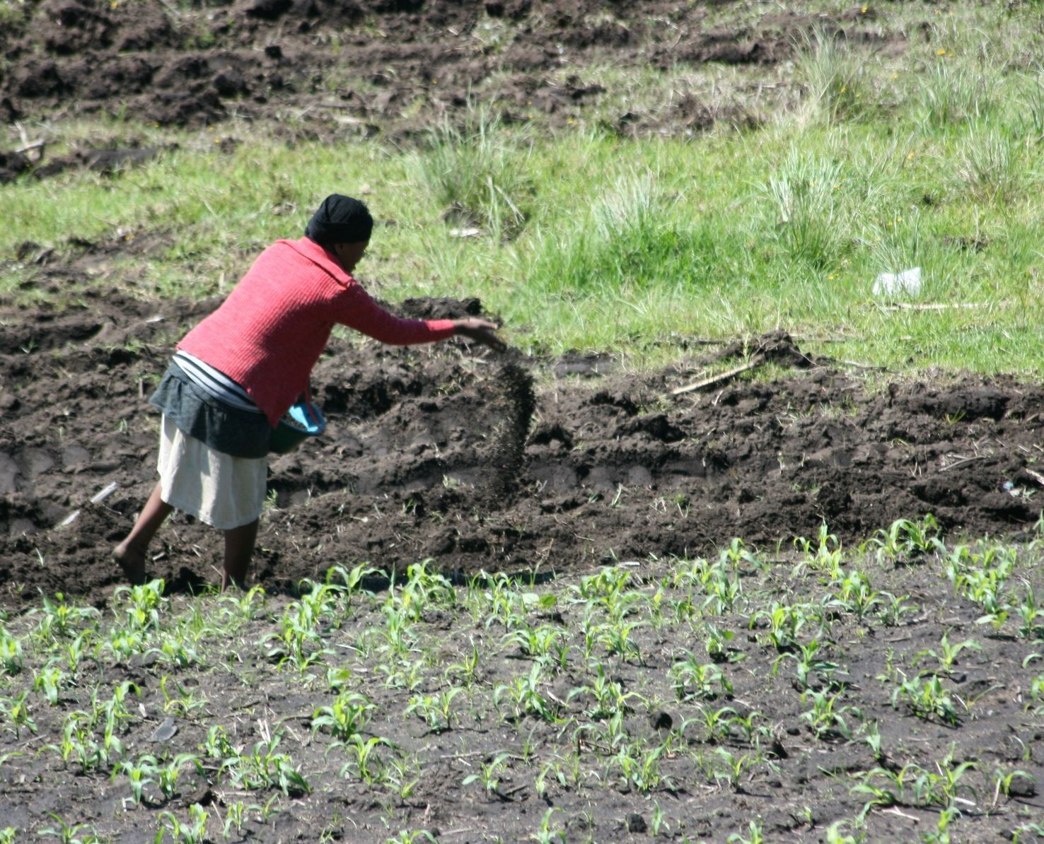 Farmer spreading kraal manure (decomposing manure from cattle pens) on recently ploughed land; Hlokozi, KwaZulu-Natal.